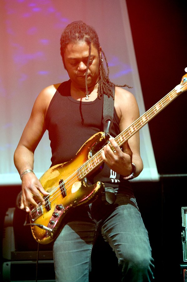 Linley Marthe at moers festival 2012